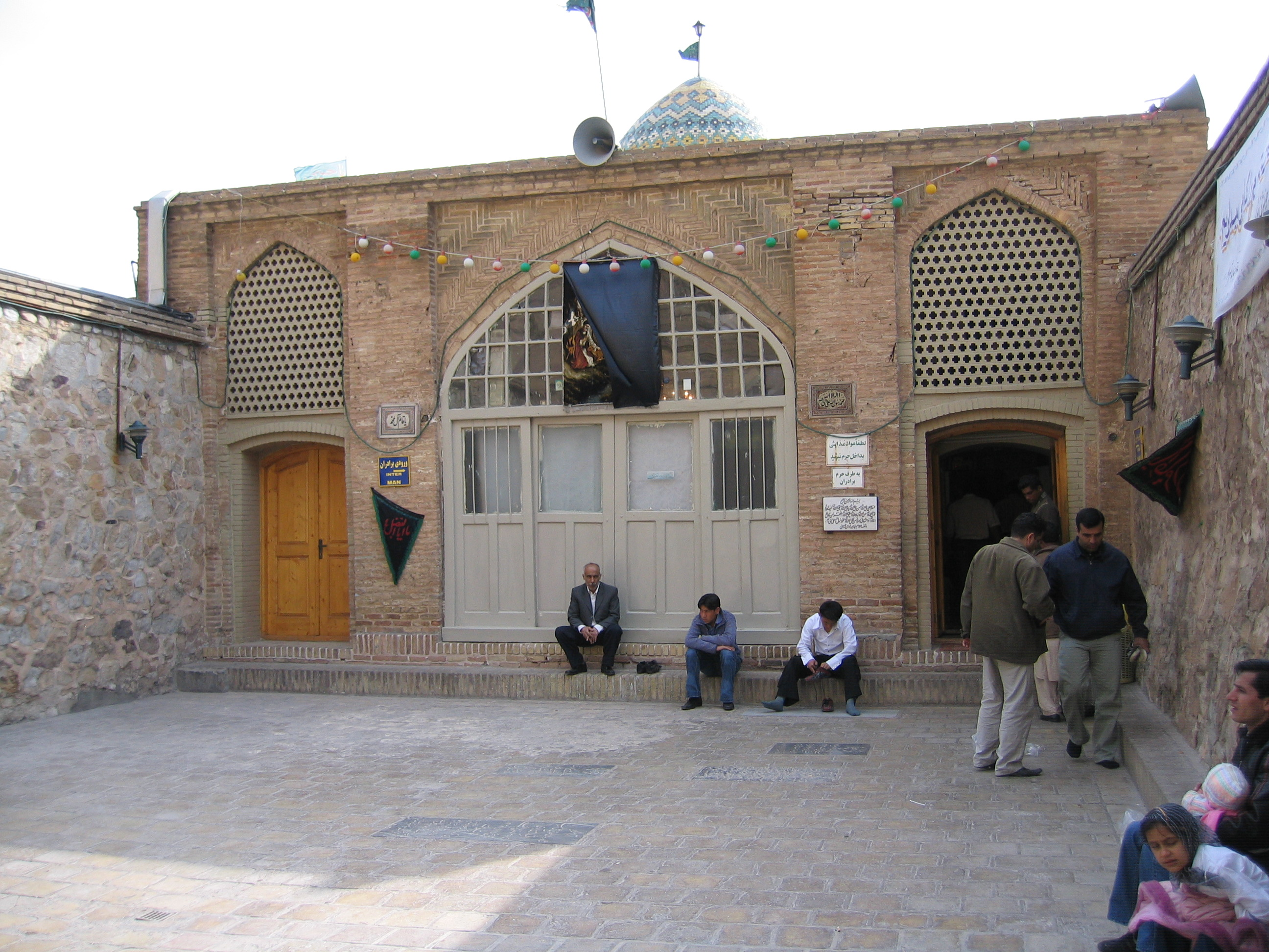 Bibi Shahrbanu's shrine, Rey, Tehran, Iran